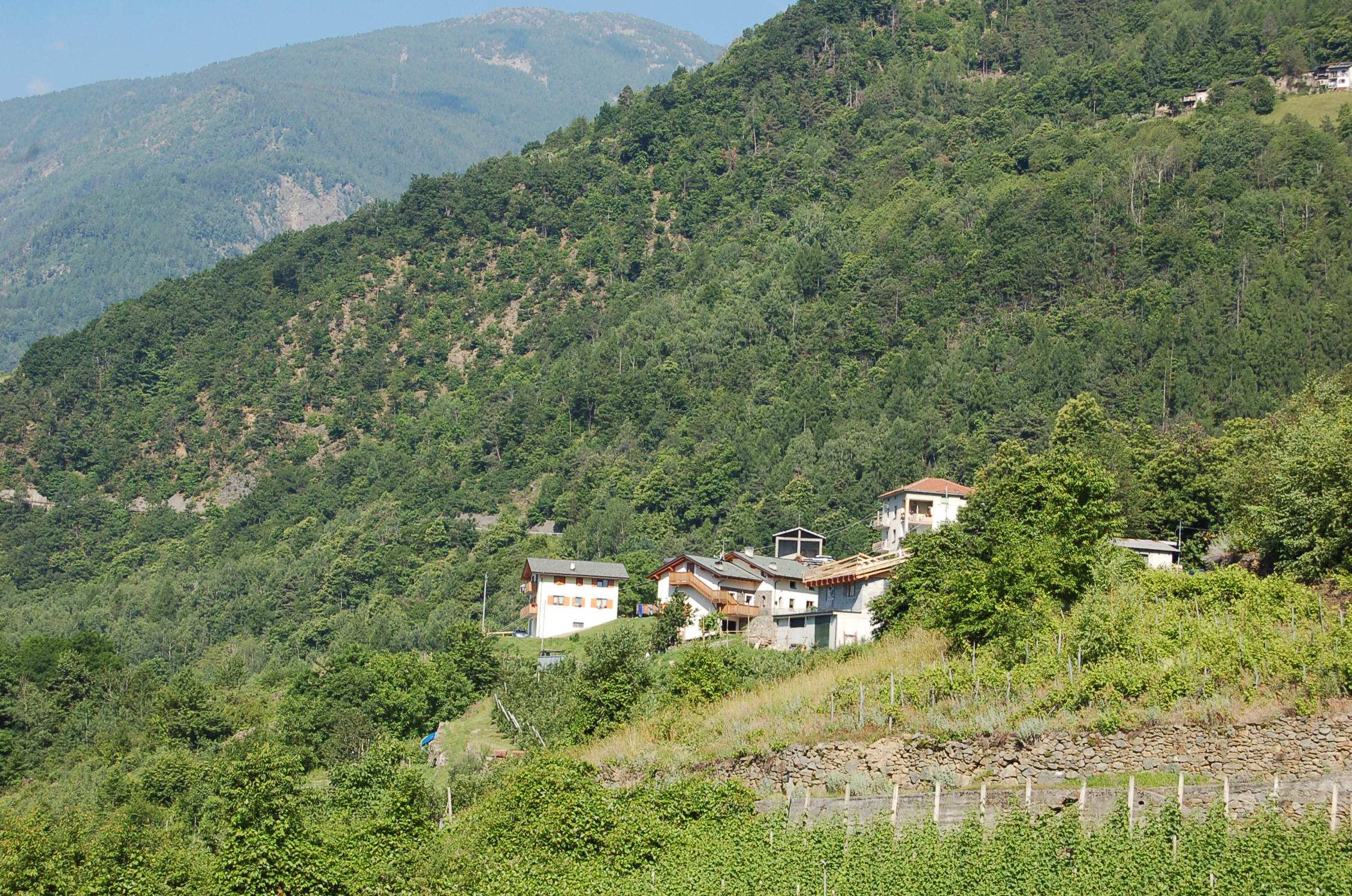 Contrada santo stefano a Baruffini Fraz. di Tirano sondrio